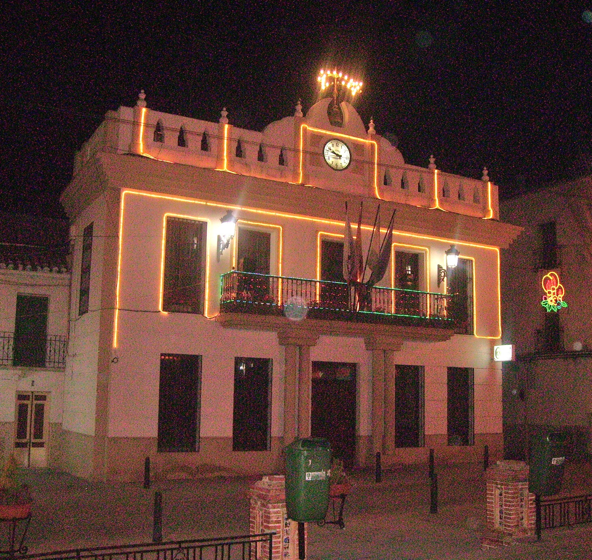 Montalbán de Córdoba City Hall, Spain.